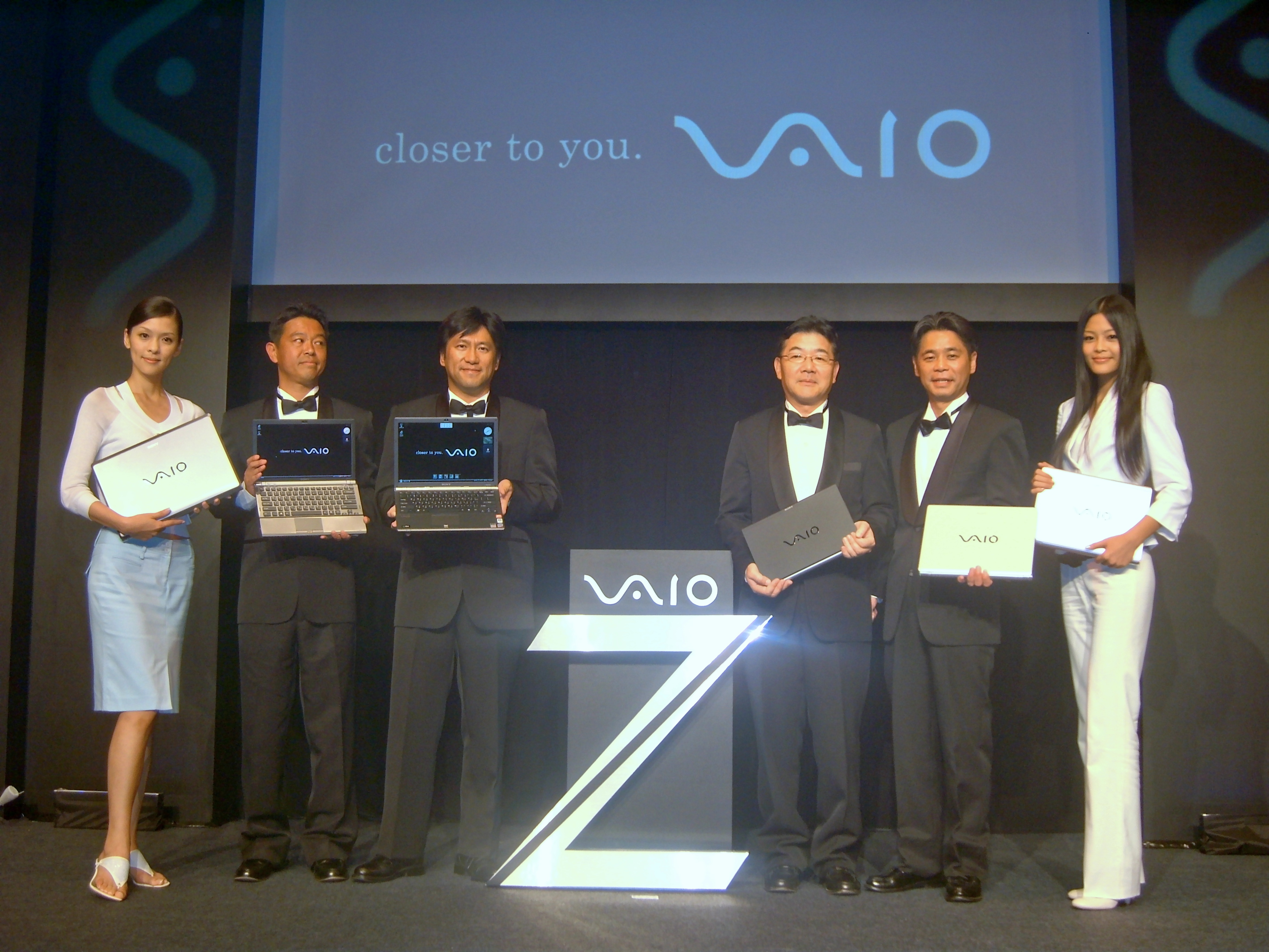 Sony Taiwan VAIO Experience 2008 Press Conference.